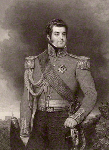 George FitzClarence, 1st Earl of Munster (1794-1842)